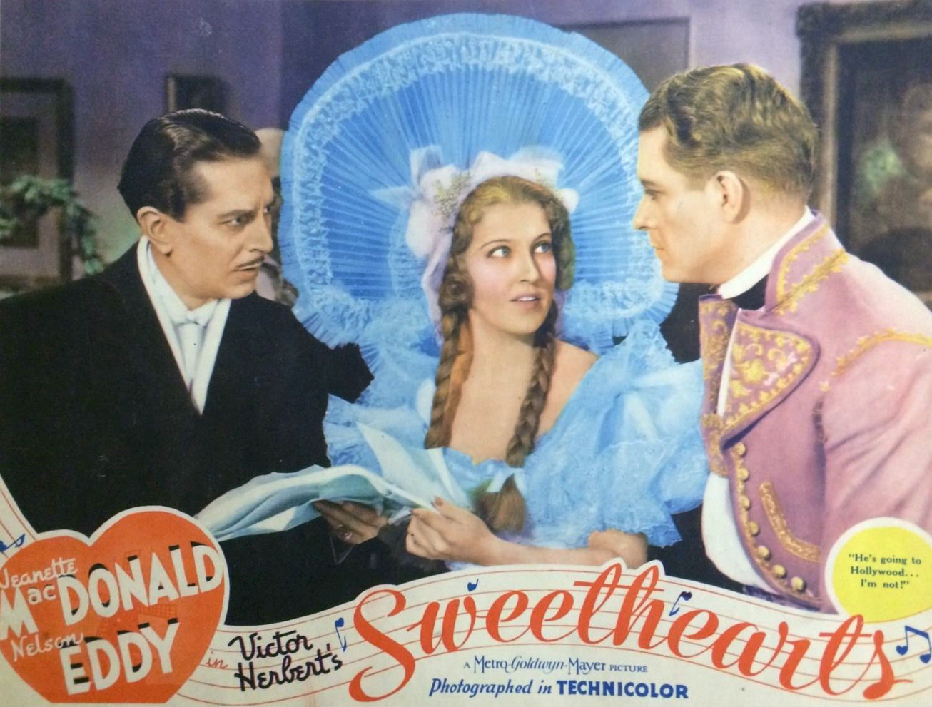 Lobby card for the American musical romance film Sweethearts (1938). The item has no copyright markings on it as can be seen in the links above and the uncropped original upload. At bottom right is Country of Origin USA.